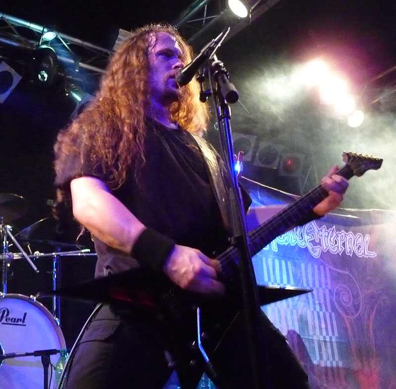 This is a picture of Hate Eternal singer and leader Erik Rutan during the Berlin concert of the Fury and Flames tour 2009.